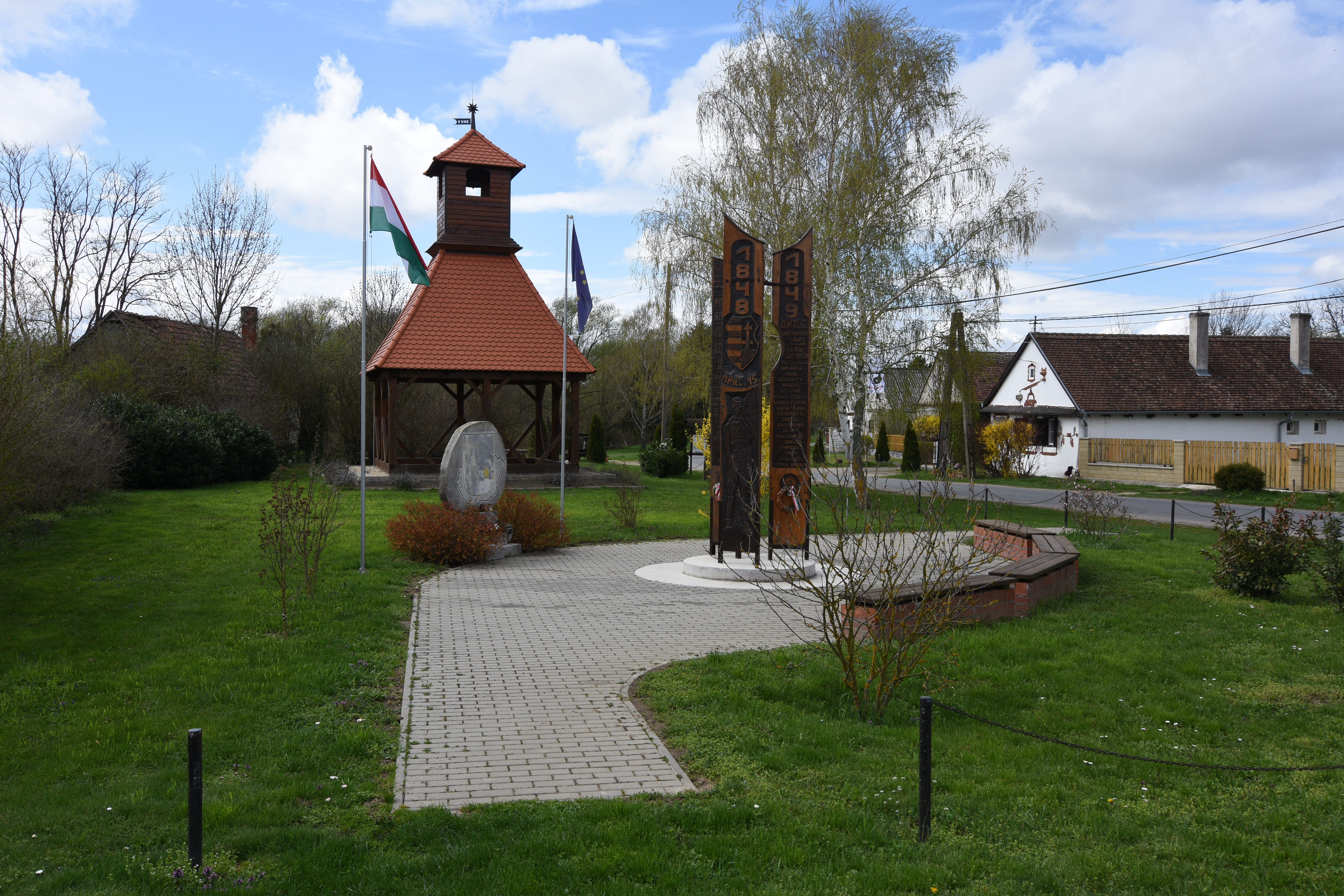 Memorial Molnaszecsőd